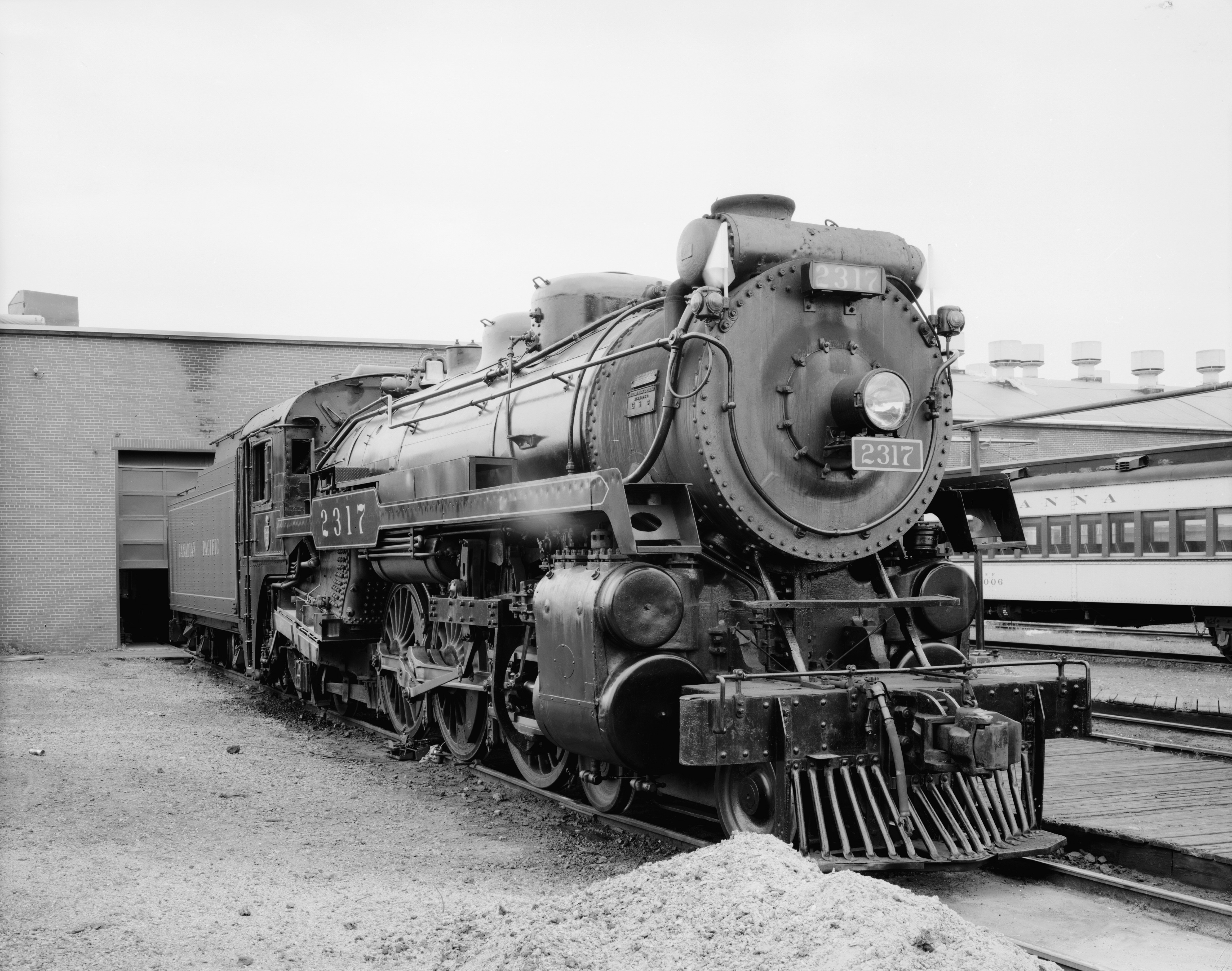 Canadian Pacific Railway G3c class 4-6-2 locomotive #2317. Photo part of the Historical American Engineering Record done by the US Parks Service, public domain.